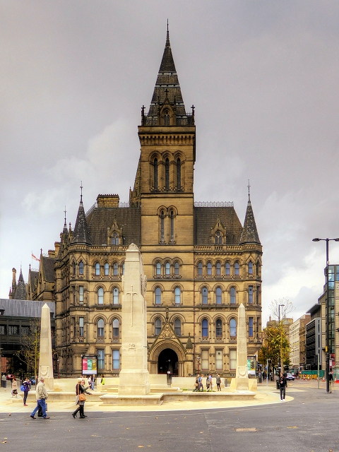 The relocated Cenotaph with the eastern facade of Manchester Town Hall in view.